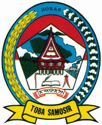 Lambang (Coat of Arms) of Kabupaten (Regency) Toba Samosir, Provinsi Sumatera Utara (North Sumatra Province), Indonesia